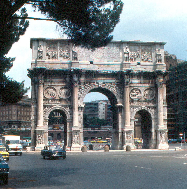 The Arch of Constantine was built for Emperor Constantine to commemorate the victory over his rival Maxentius in 312 A.D.. The arch, which is near the Colosseum, was dedicated in 315 A.D.